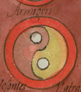 Shield pattern of the late Roman infantry unit Armigeri (Defensores Seniores). Clm 10291 codex, a copy of the late Roman Notitia Dignitatum in the Bayerische Staatsbibliothek (BSB) in Munich, Germany